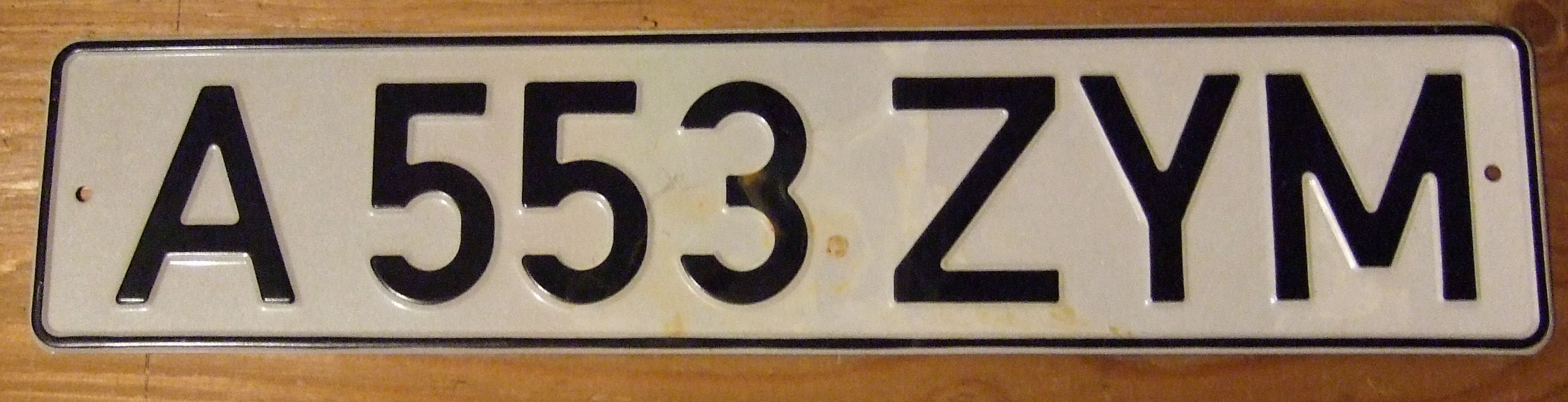 License plate from Kazakhstan